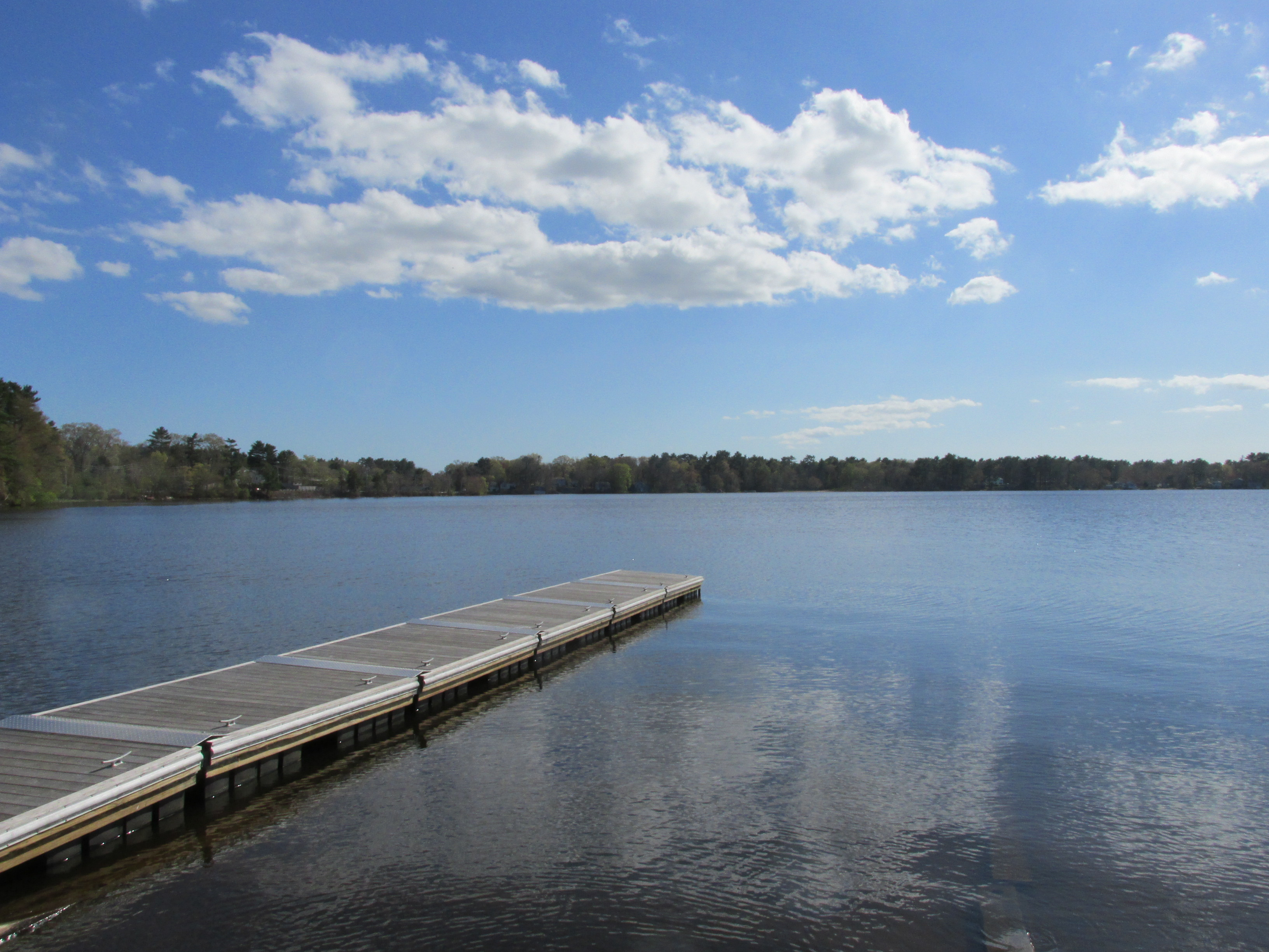 West Monponsett Pond, Monponsett Massachusetts - 2013